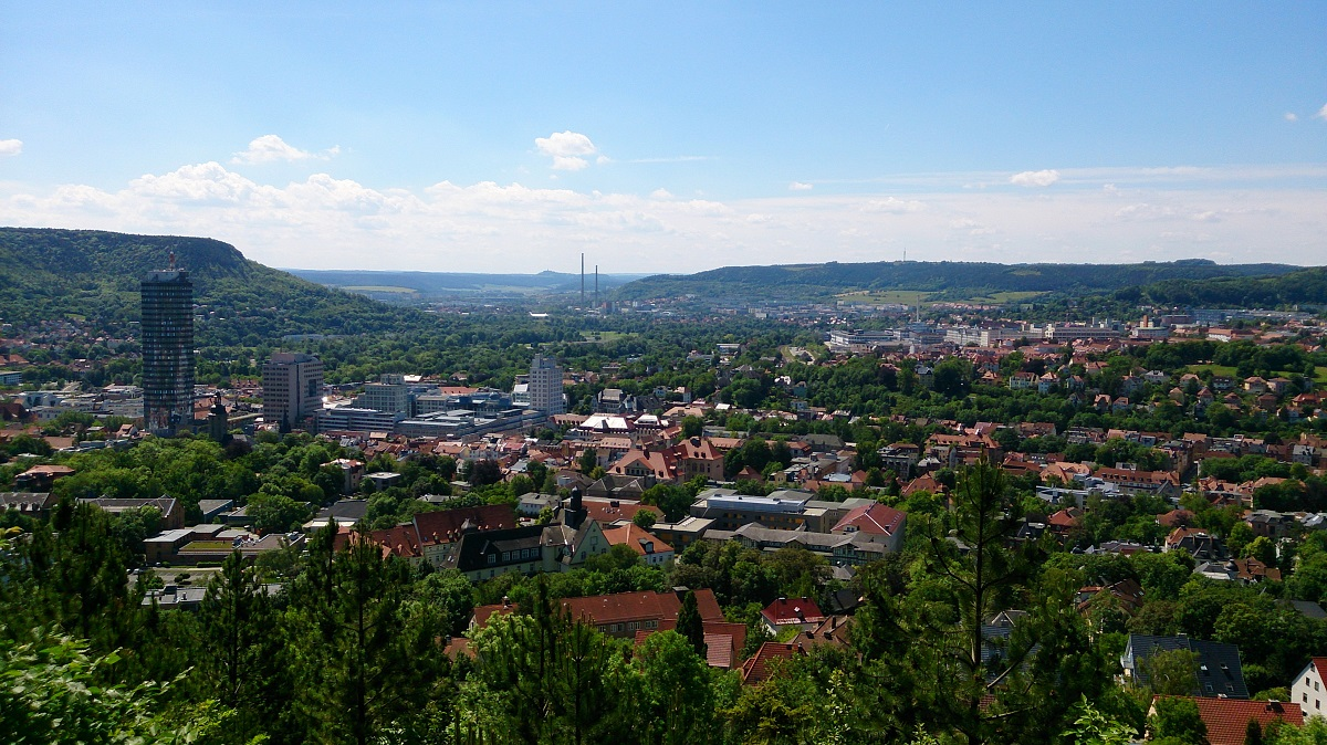 Blick auf Jena-City vom Landgrafen